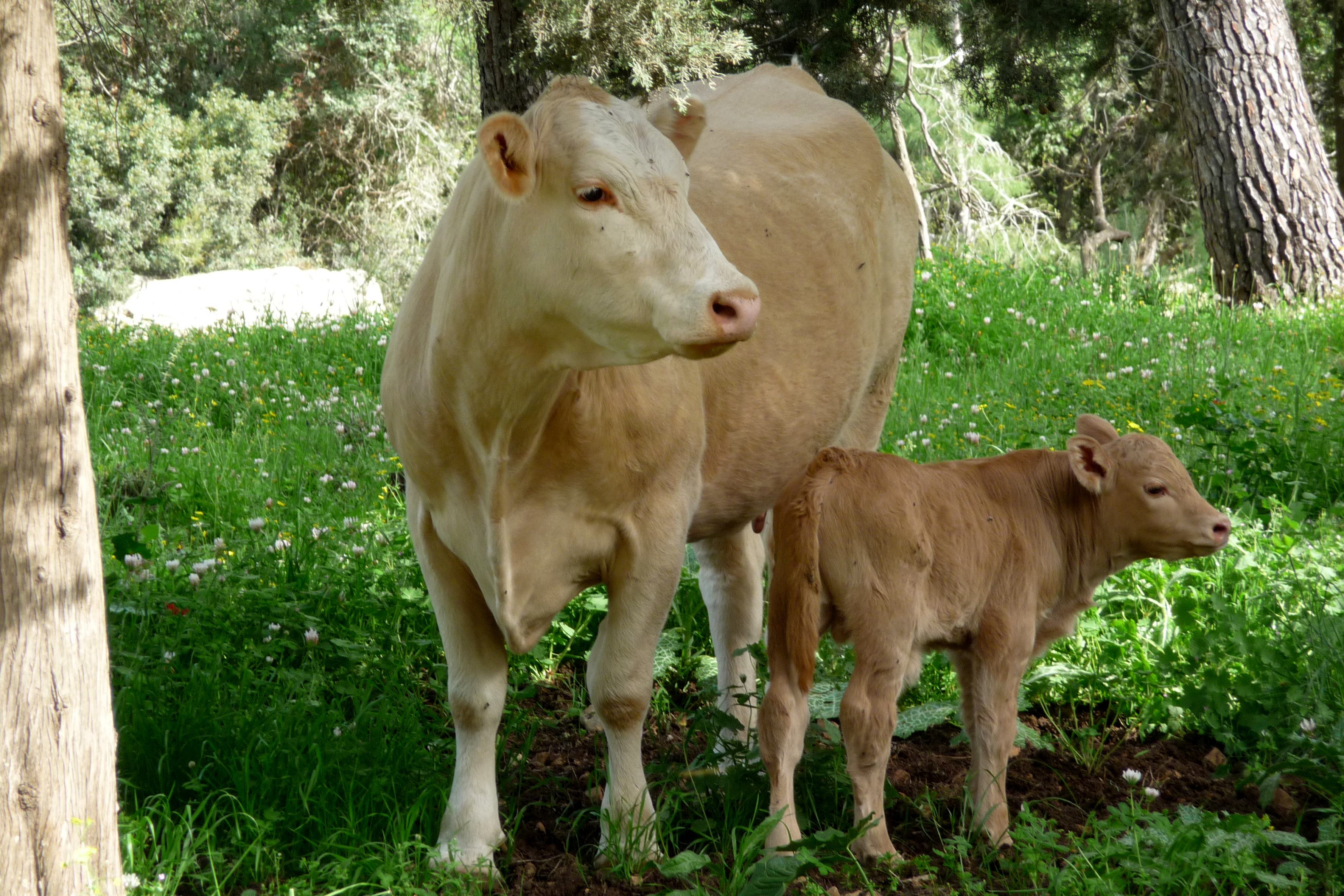 Carmel Park